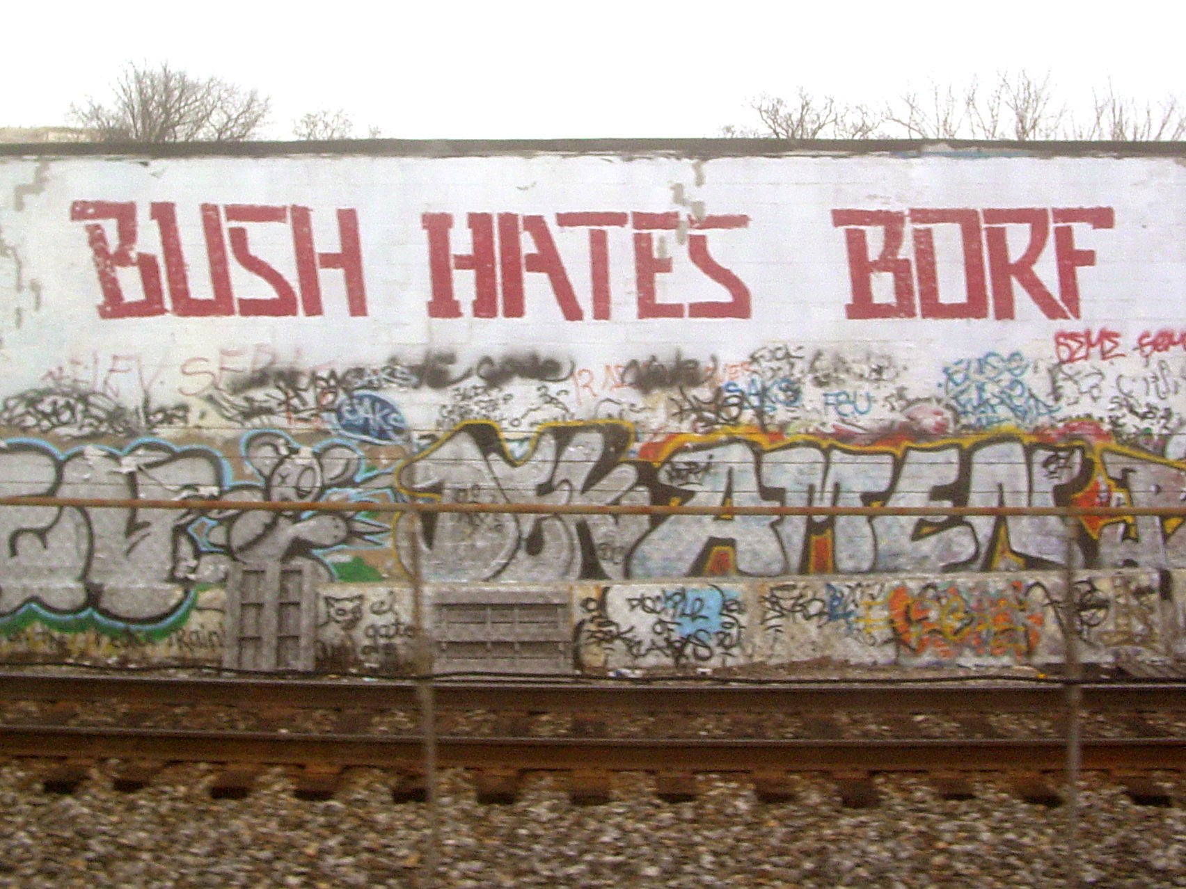 Large "Bush hates Borf" writing on the back wall of the Vision Lighting Building (300 Vine St NW, Washington, DC 20012). Visible from the Metro Red Line near the Takoma Metro station.